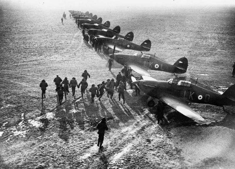 Royal Air Force- France 1939-1940. Pilots of No. 87 Squadron practicing a scramble to their Hawker Hurricane Mark Is at Lille-Seclin.